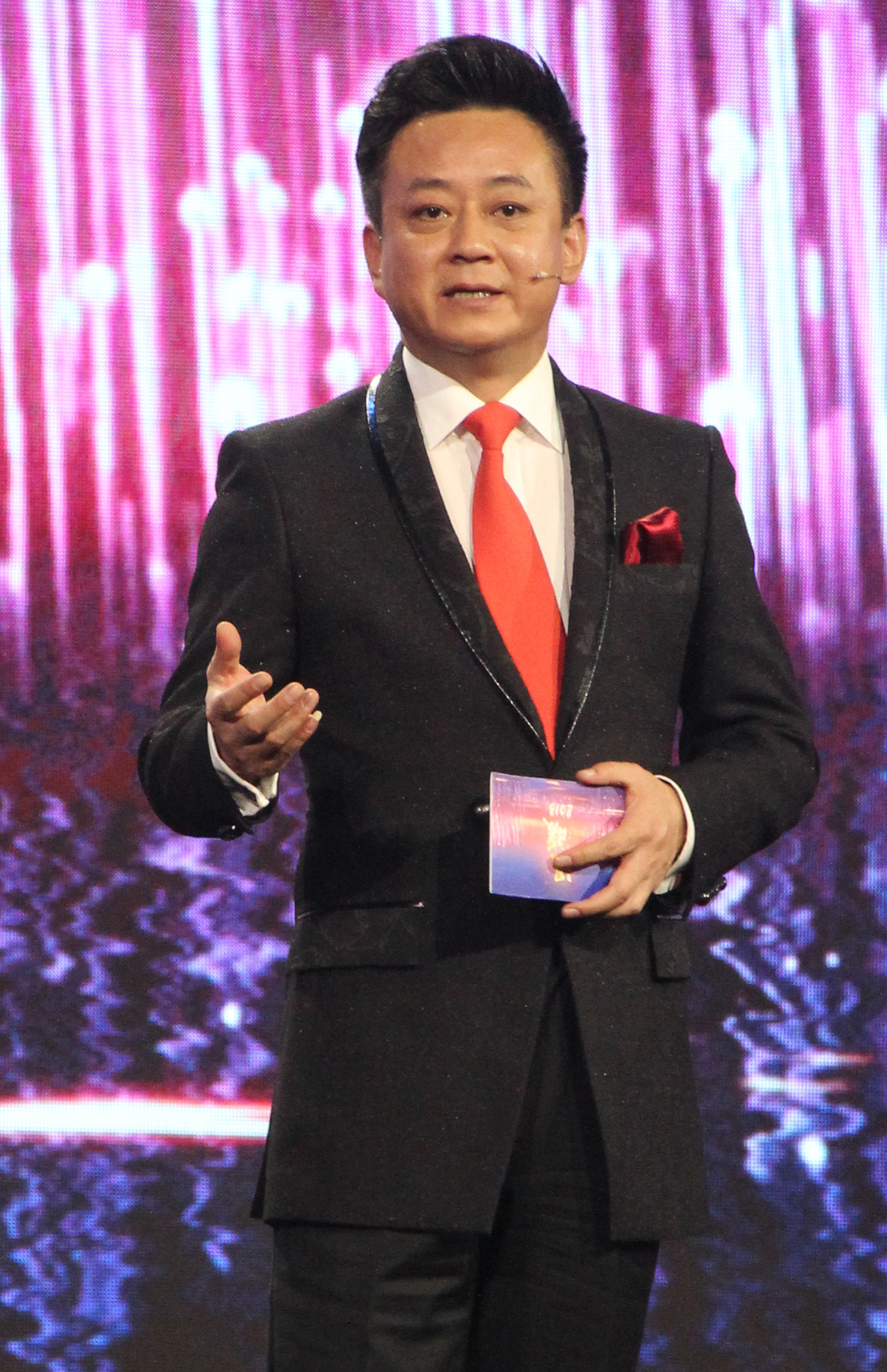 Chinese presenter Zhu Jun.